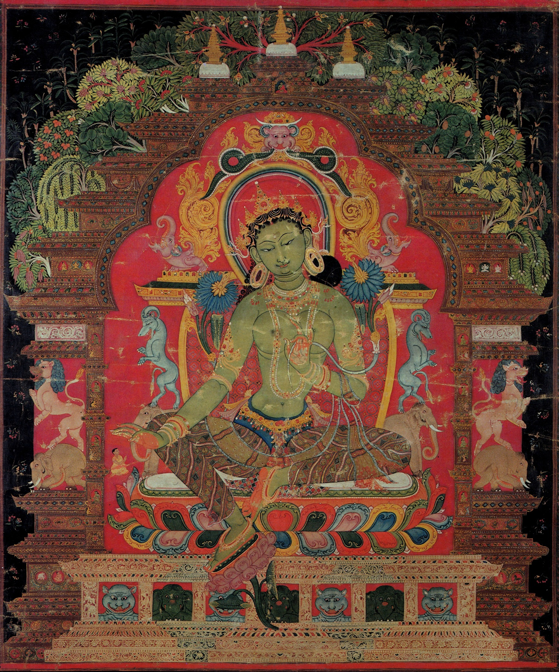 Thangka of Green Tara